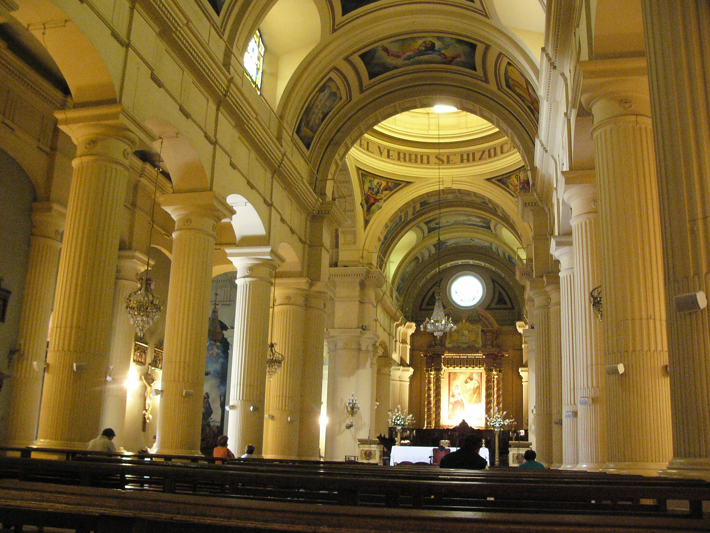 Inner view of Tucumán Cathedral (19th century), Argentina